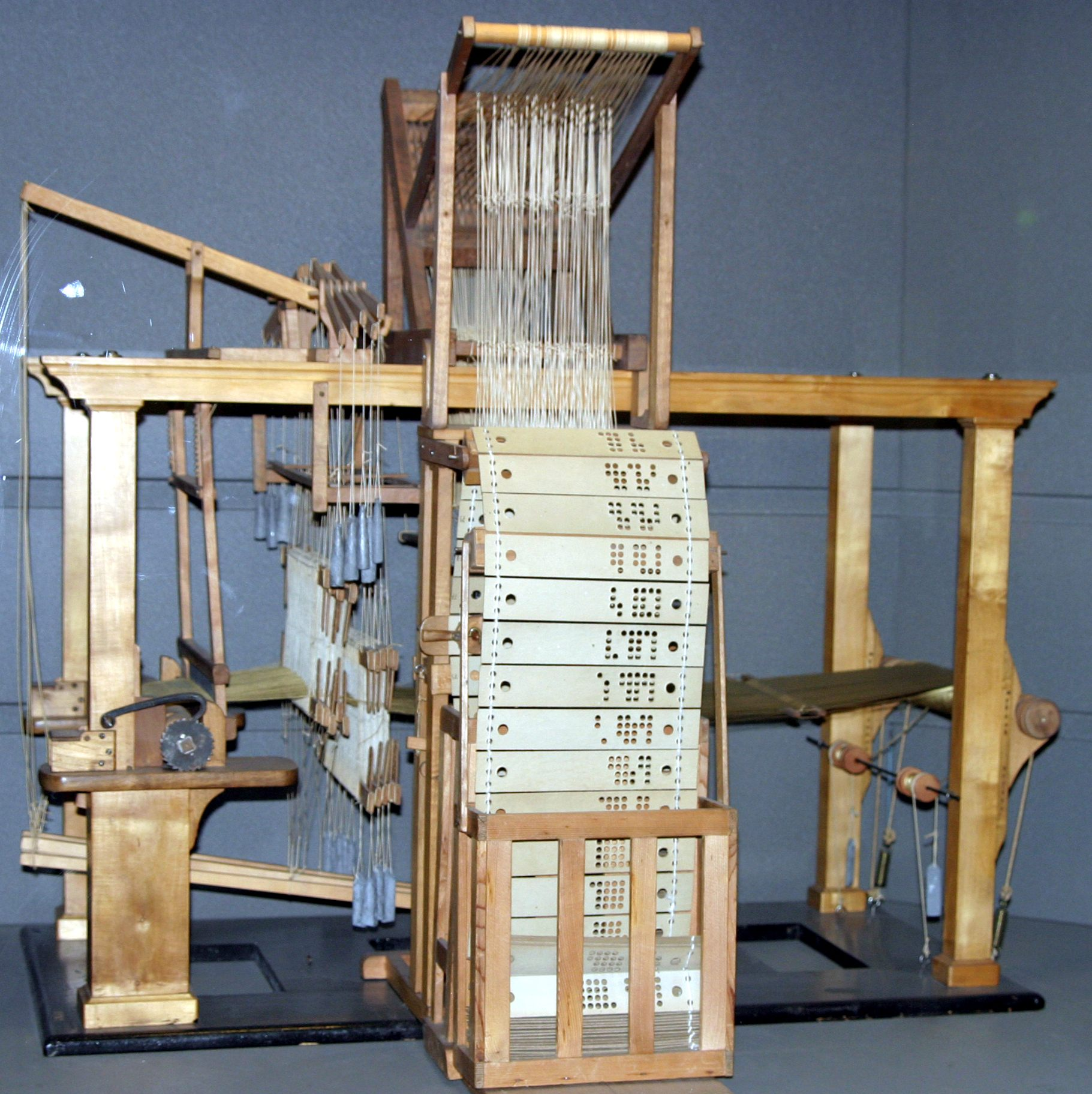 loom of Jean Baptiste Falcon